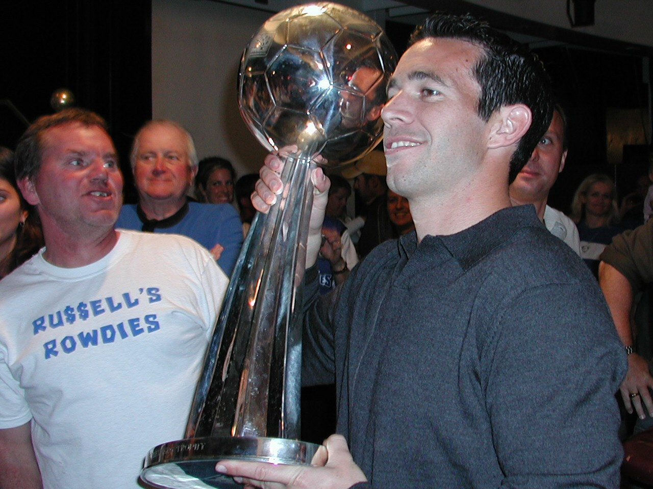 Ian Russell holding the MLS cup